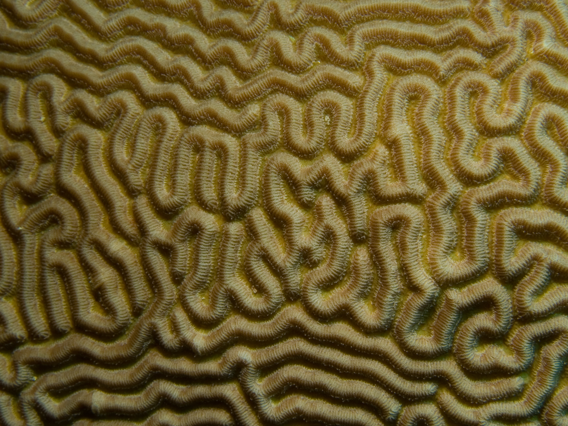 Diplora strigosa (Symmetrical Brain Coral) closeup.